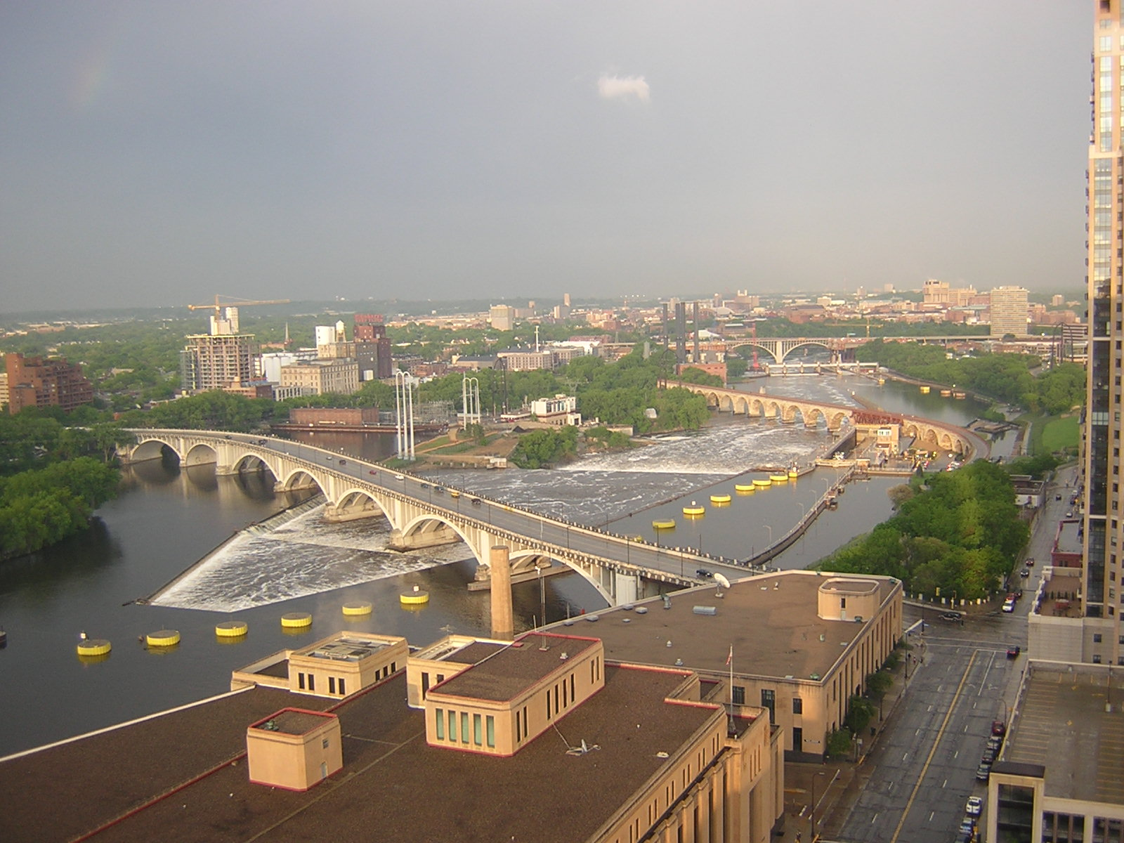 Mississippi River in Minneapolis, Minnesota looking southeast.